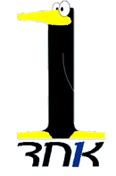 אחד logo. אחד is a defunct Israeli project that offers a repackaging of standard binary packages Mandriva